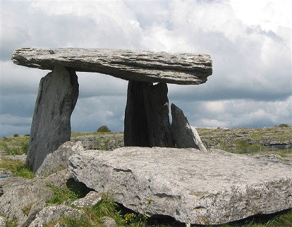 Original photograph taken by me at Poulnabrone on the Burren, County Clare, Ireland in 2003